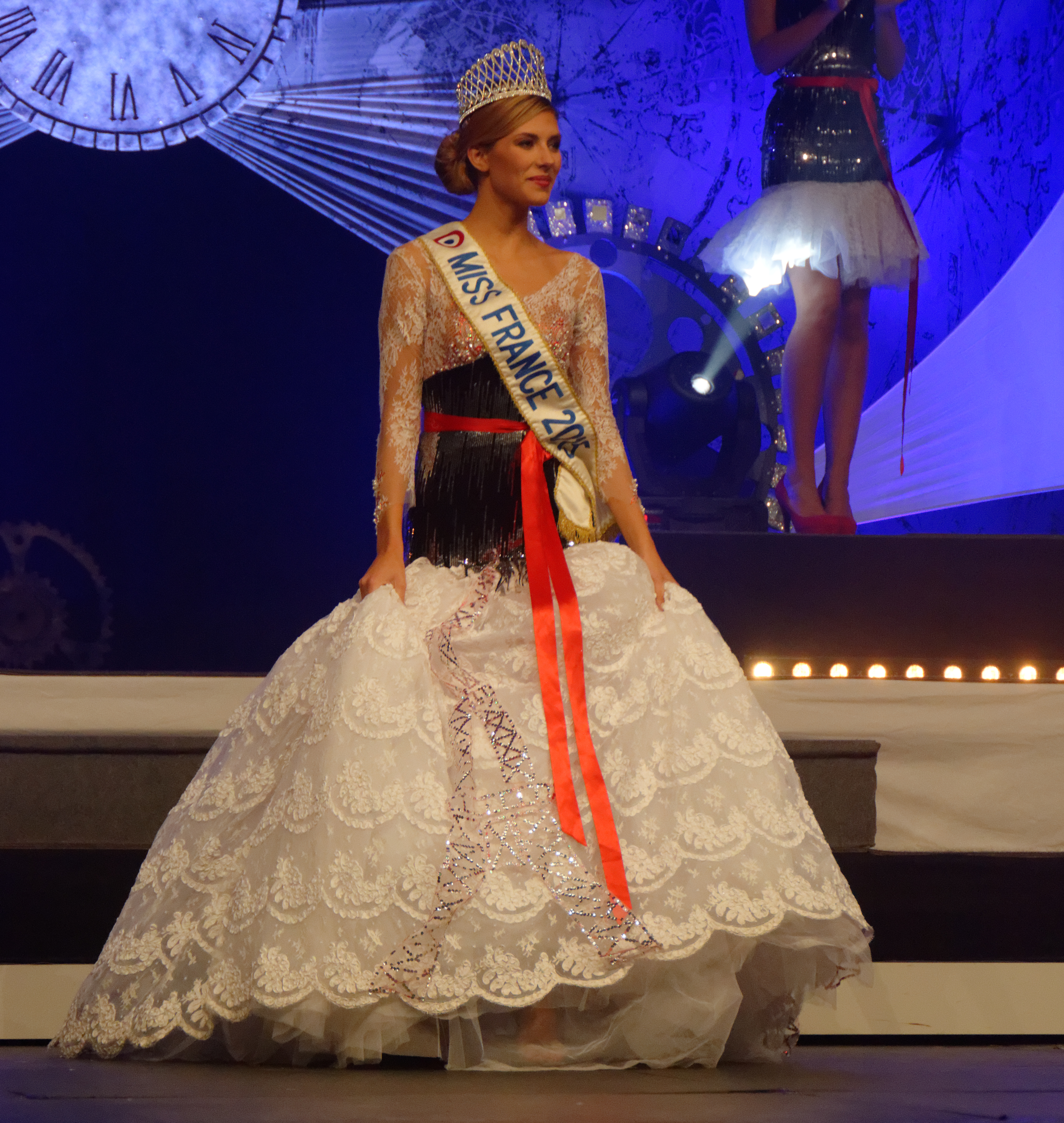 Personality rights warningAlthough this work is freely licensed or in the public domain, the person(s) shown may have rights that legally restrict certain re-uses unless those depicted consent to such uses. In these cases, a model release or other evidence of consent could protect you from infringement claims.